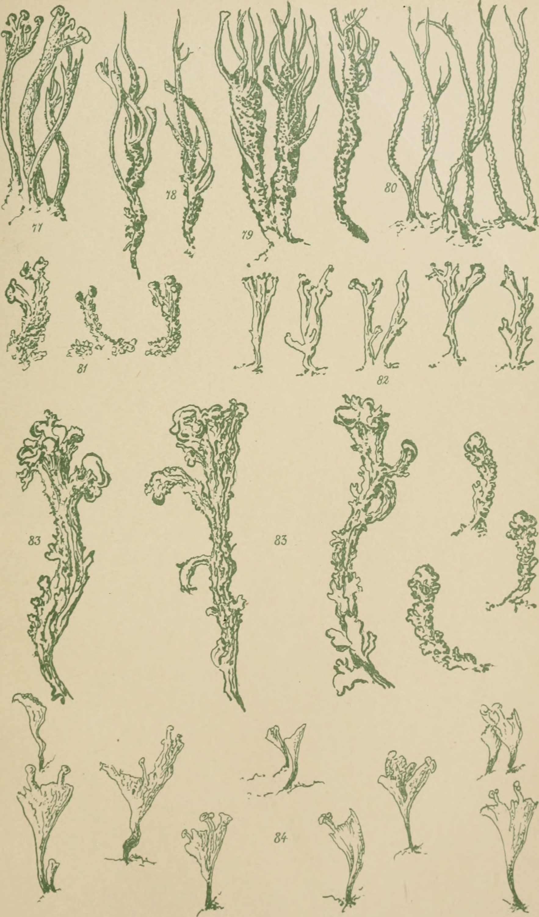 Title: Beihefte zum botanischen Centralblatt Year: 1904-1933 (1900s) Authors: Subjects: Plants Publisher: Leipzig : Verlag von G. Thiem Text Appearing Before Image: Beihefte zum Botanischen Centralblatt Bd. XXnT.Abt. JE TafeL-XVnr. Text Appearing After Image: M. Britzelmayr. Verlag von C. Heinrich, Dresden-N.